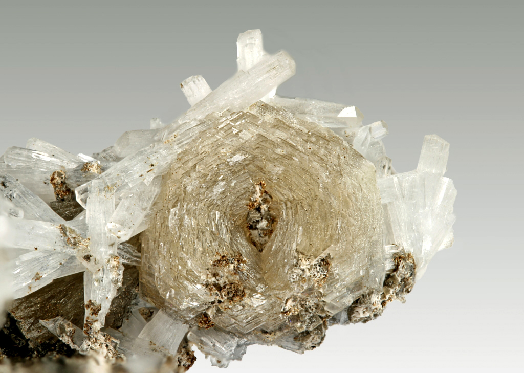 Catapleiite, Natrolite Locality: Poudrette quarry (Demix quarry; Uni-Mix quarry; Desourdy quarry; Carrière Mont Saint-Hilaire), Mont Saint-Hilaire, La Vallée-du-Richelieu RCM, Montérégie, Québec, Canada The rosette is ~ 12 mm in diameter. Thanks to Jean-Yves Lamoureux (found Oct 1995). MOB coll. Per JY: "October 15, 1995 was the date, a late Sunday afternoon find, and we only collected the surface of this huge vertical pocket. Asked Jean-Guy Poudrette the permission to come back the next day, but they had to blast this area early in the morning... Sigh."